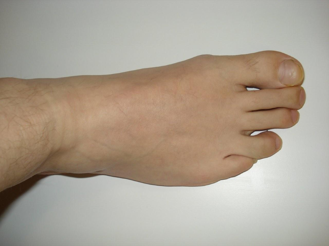 I declare and certify that I created and made this foto "Right foot" myself and that I am the person in this foto.